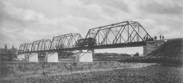 Freeport Bridge, Preston & Berlin Electric Railway, Preston, Ontario, circa 1905. This image is available from the Toronto Public Library under the reference number PC-ON 1757This tag does not indicate the copyright status of the attached work. A normal copyright tag is still required. See Commons:Licensing. English | français | +/−